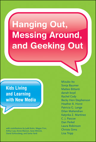 the cover picture of the book Hanging Out, Messing Around, and Geeking Out: Kids Living and Learning with New Media